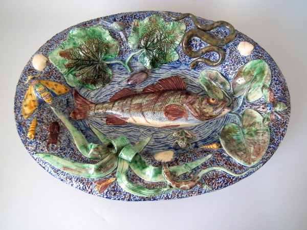 French Palissy ware wall plate circa 1870 by the Paris maker Barbizet, depicting a fish, reptiles, insects and leaves. Book reference ,'Palissy Ware' by Marshall P. Katz and Robert Lehr, page 124, figure 143.